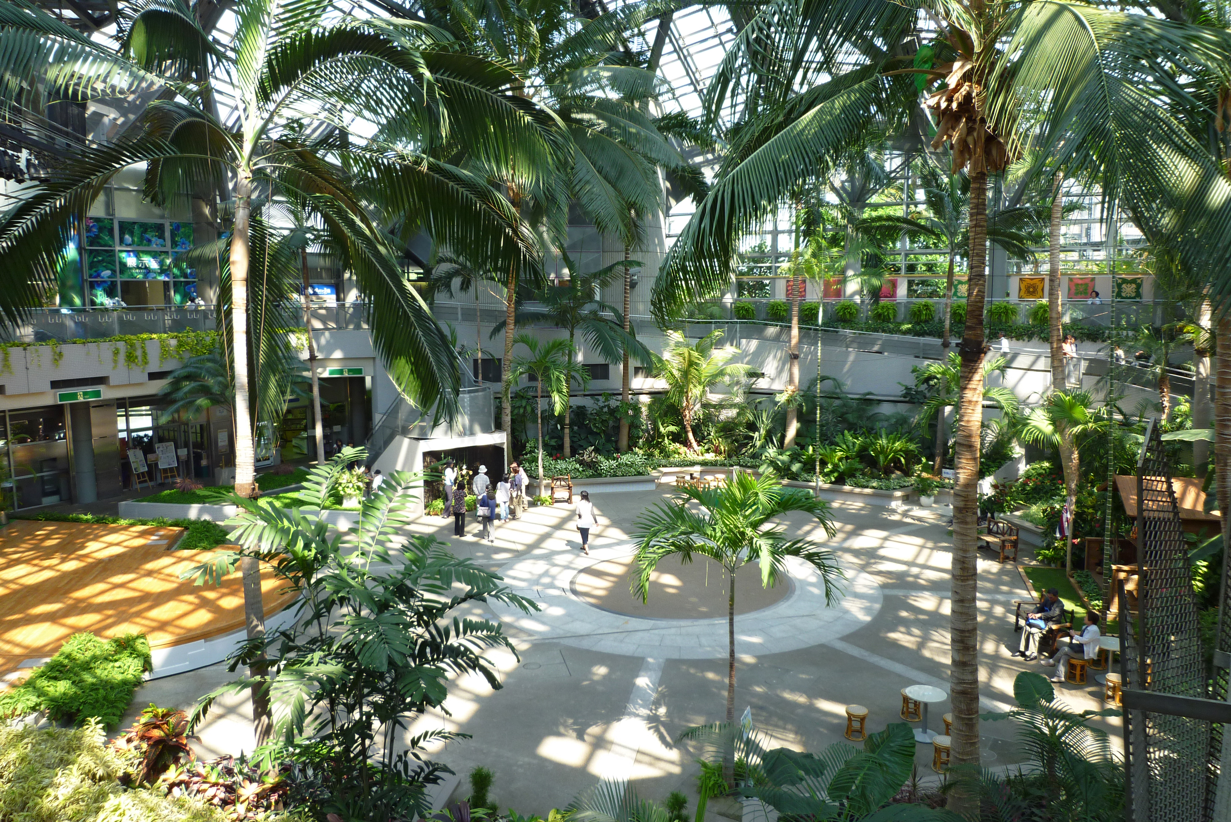 Hanahakukinenkoen Turumiryokuchi, Osaka, Osaka prefecture, Japan.